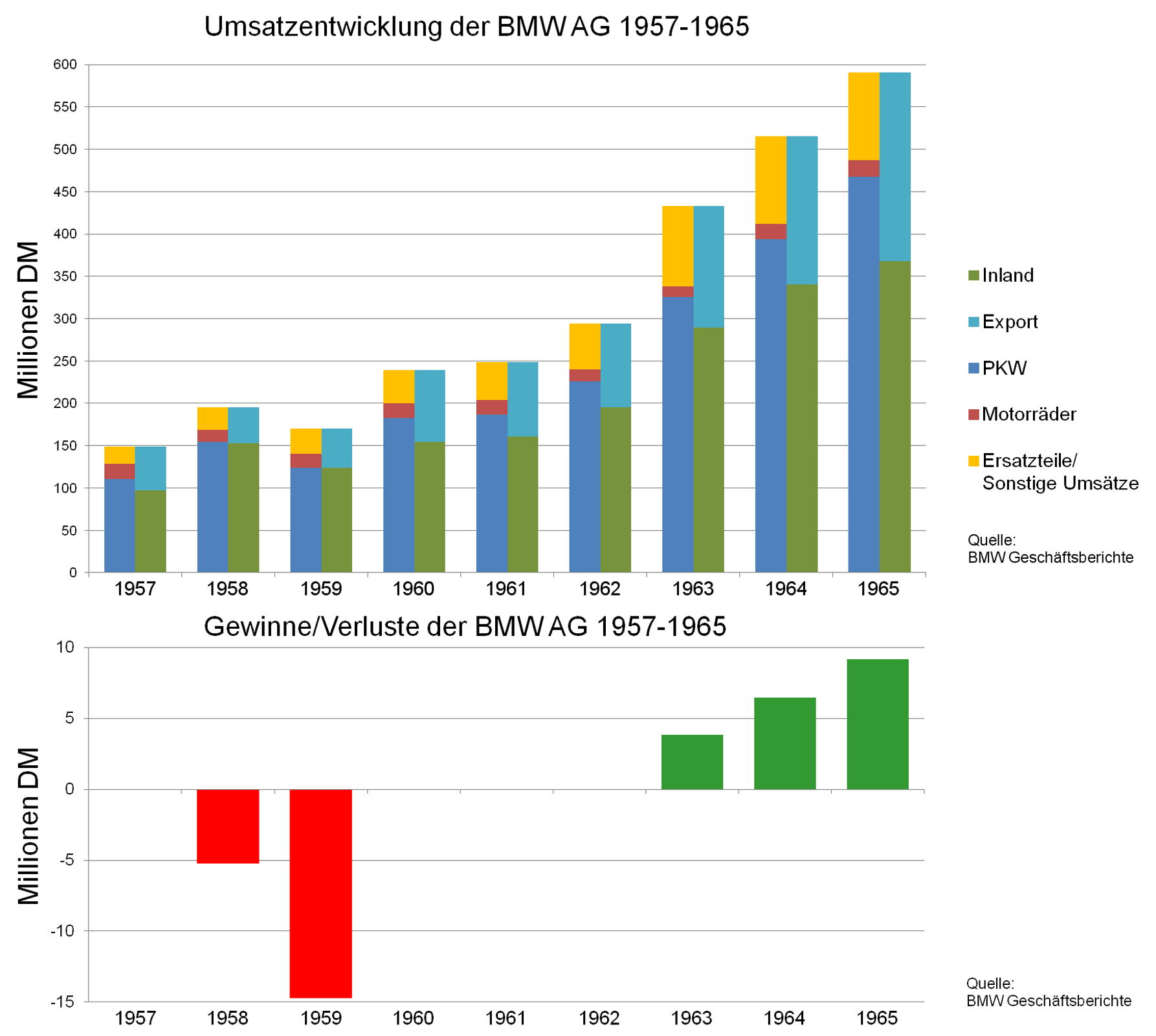 Business volume, accumulated profits and accumulated losses of the BMW AG in the financial years 1957-1965